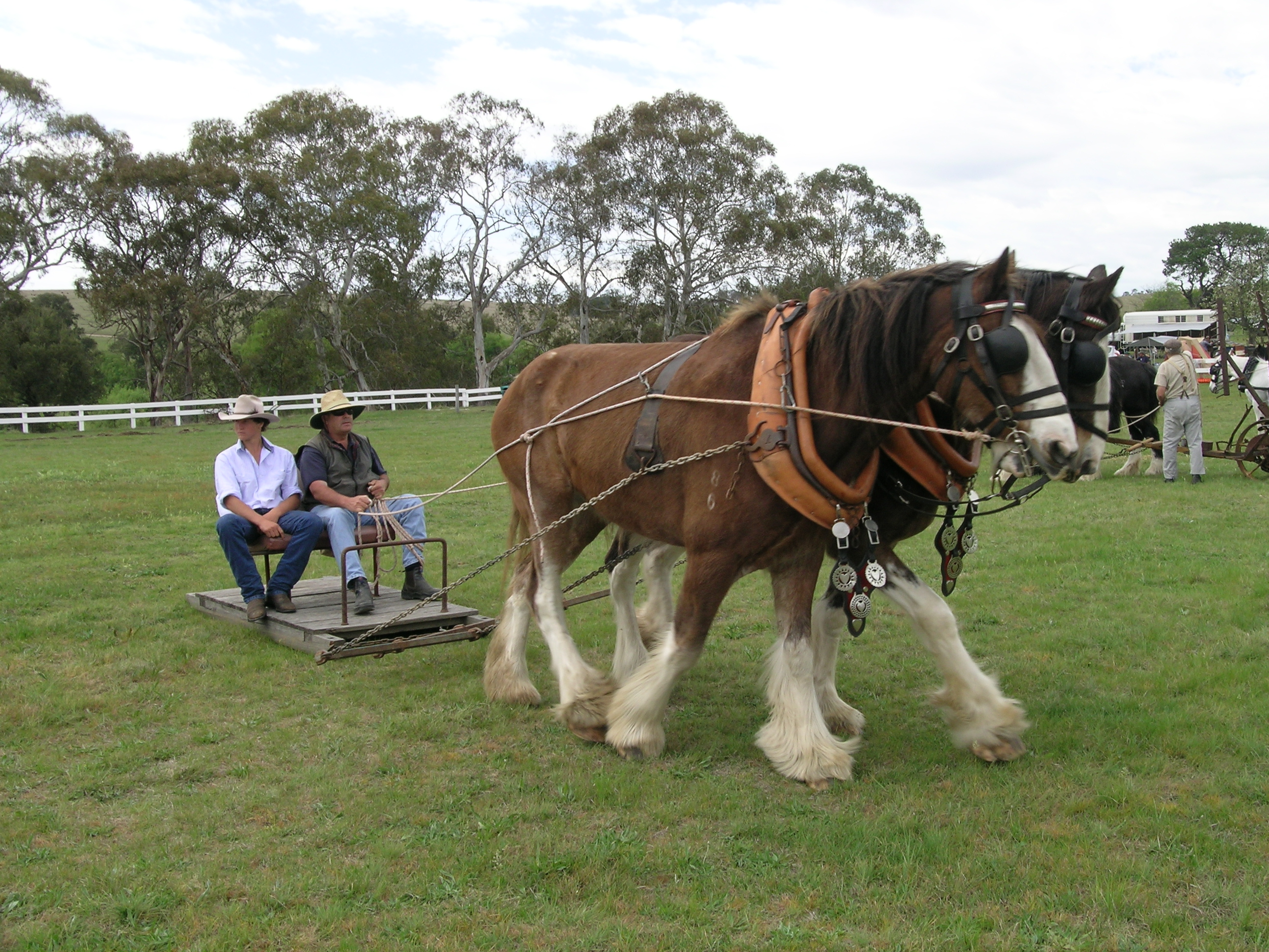 Horse drawn sled (sledge, stone boat), Spring Fair, Woolbrook, NSW